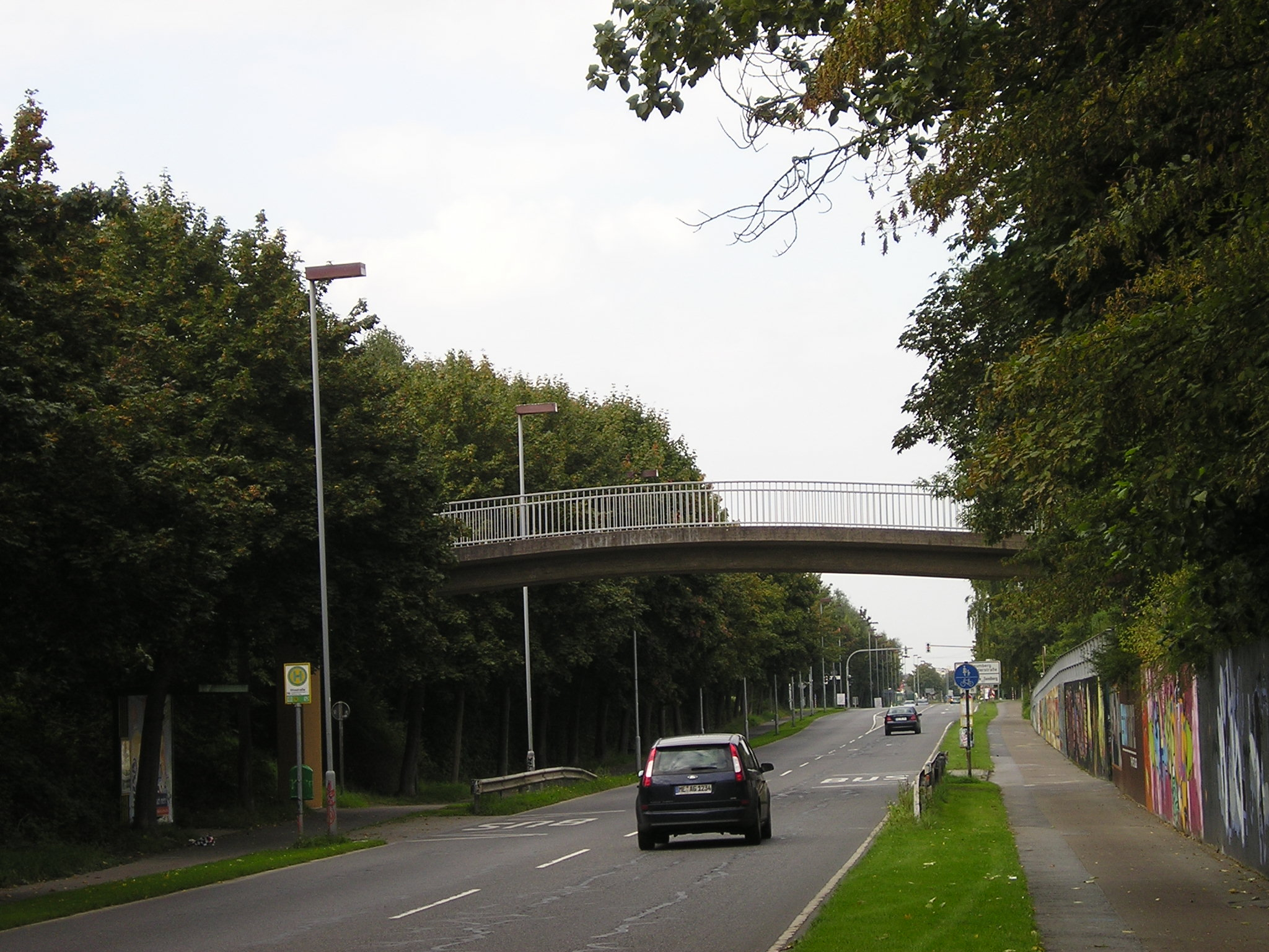 footbridge over the Baumberger Chaussee in Monheim am Rhein